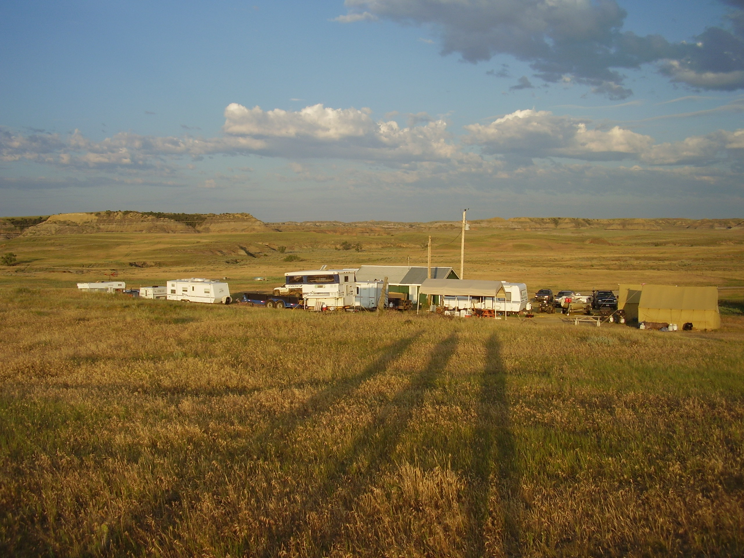 Paleontological field camp of Museum of the Rockies, eastern Montana (Hell Creek Fm.).